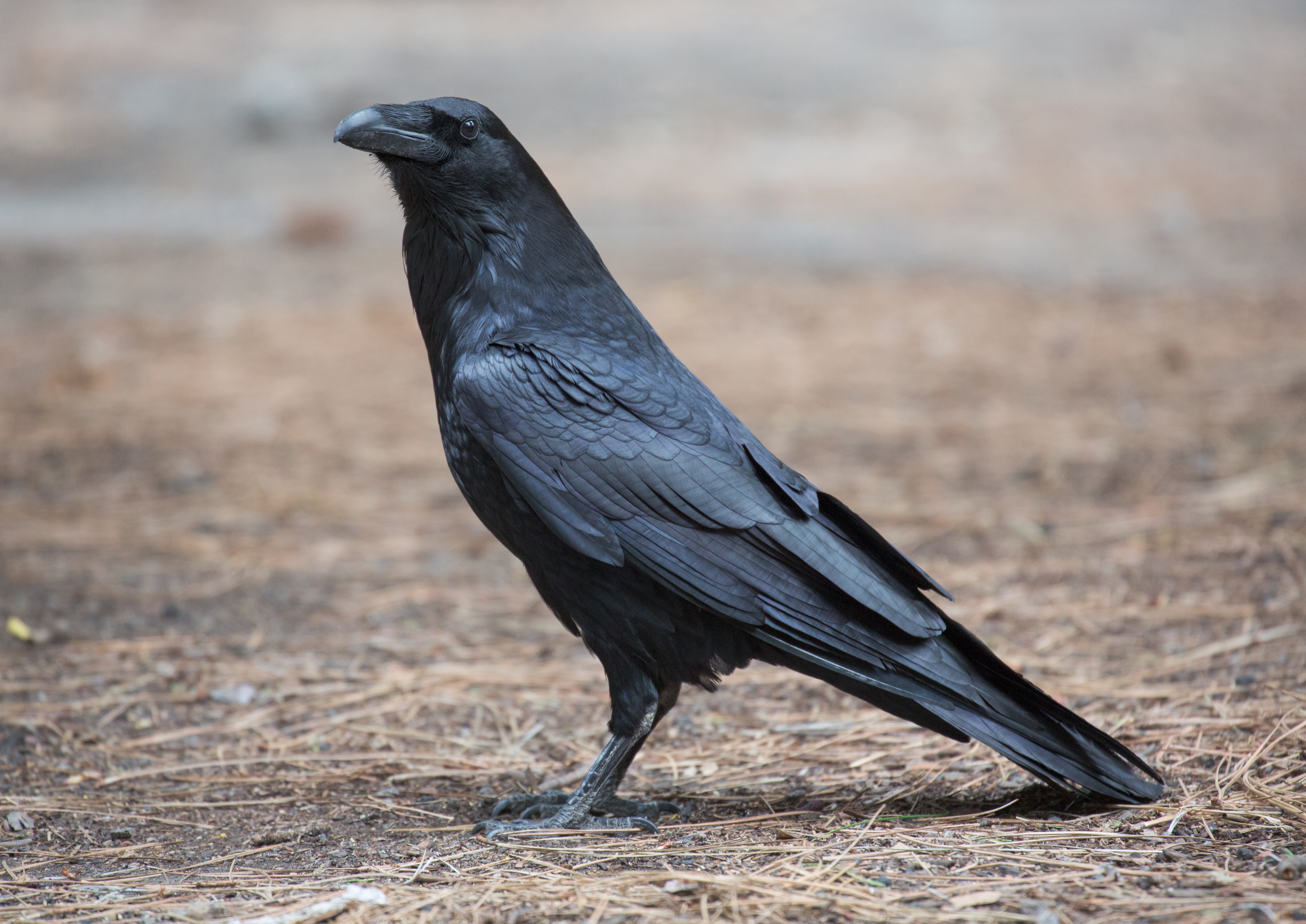 Corvus corax (Common Raven) at Camp 4 in Yosemite Valley, Yosemite National Park, California, United States